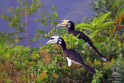 A pair of Pied Hornbill Anthracoceros albirostris